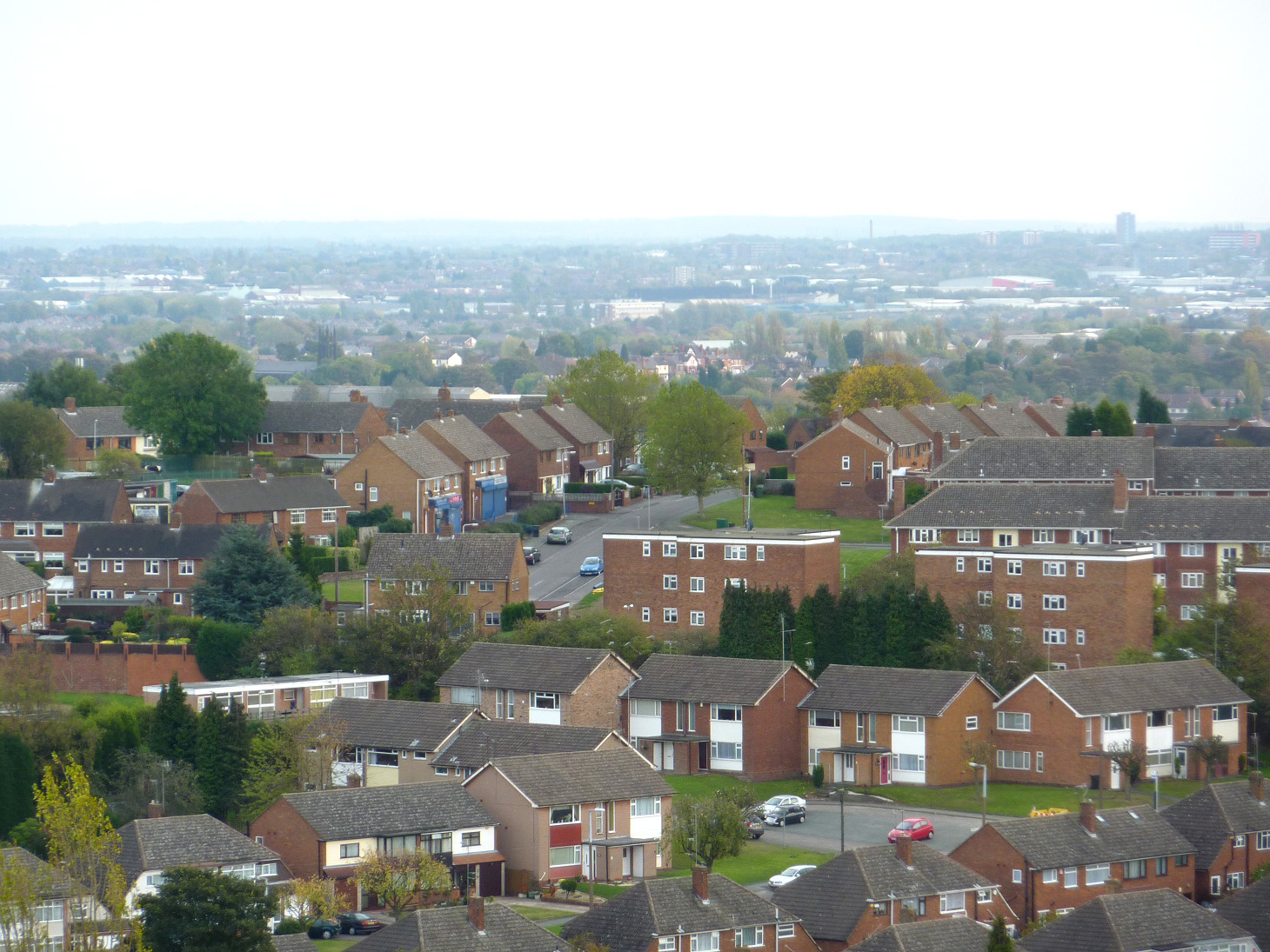 A view toward Turner Avenue, Woodcross, from Beacon Hill, Sedgley.